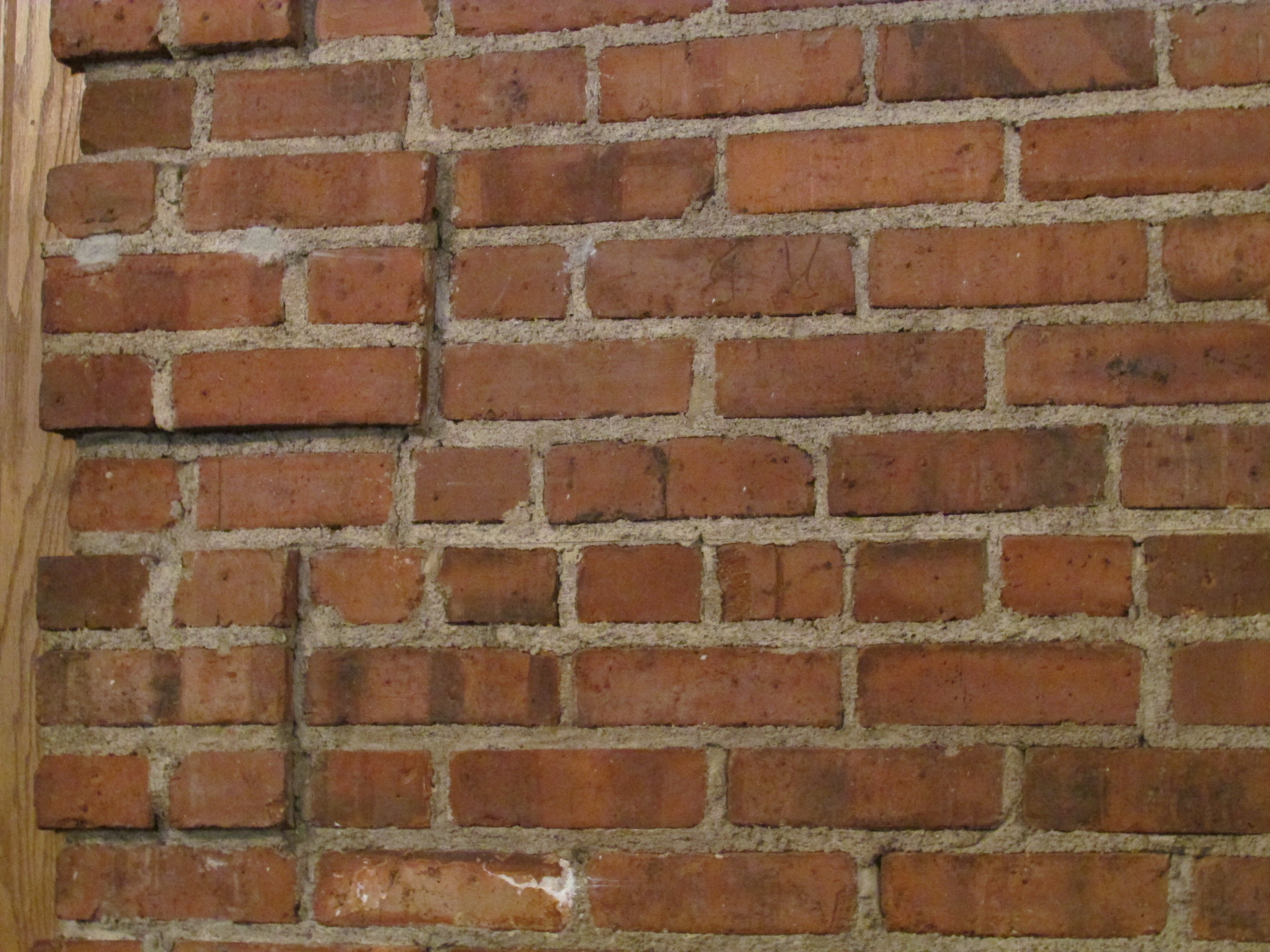 Brick Work in the Historic lobby at Potawatomi Inn, Pokagon State Park, Indiana.